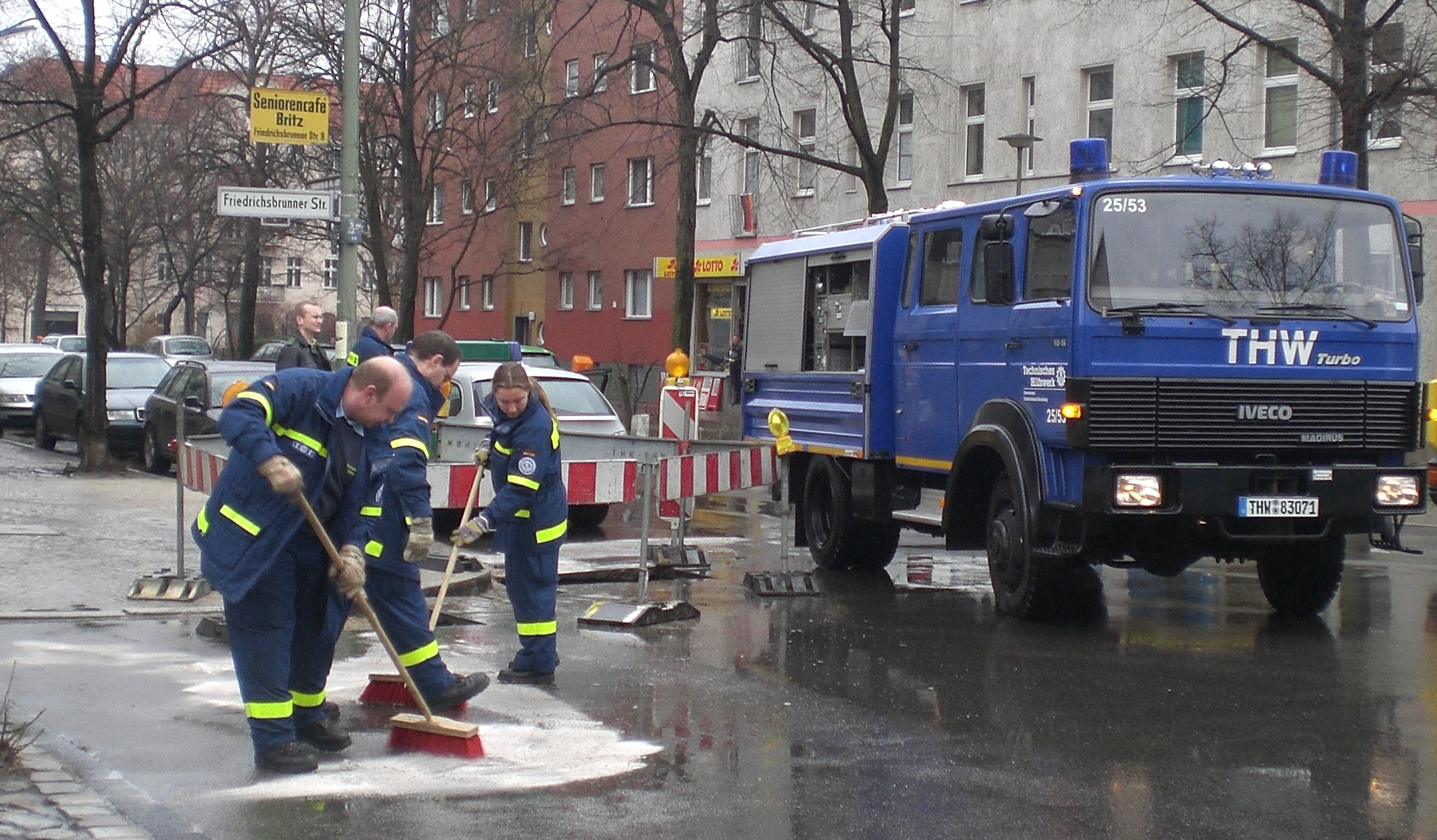 As an organisation of the Federal Government - up to 99 percent of its work is based on voluntary commitment - THW is unique and deeply rooted in society.